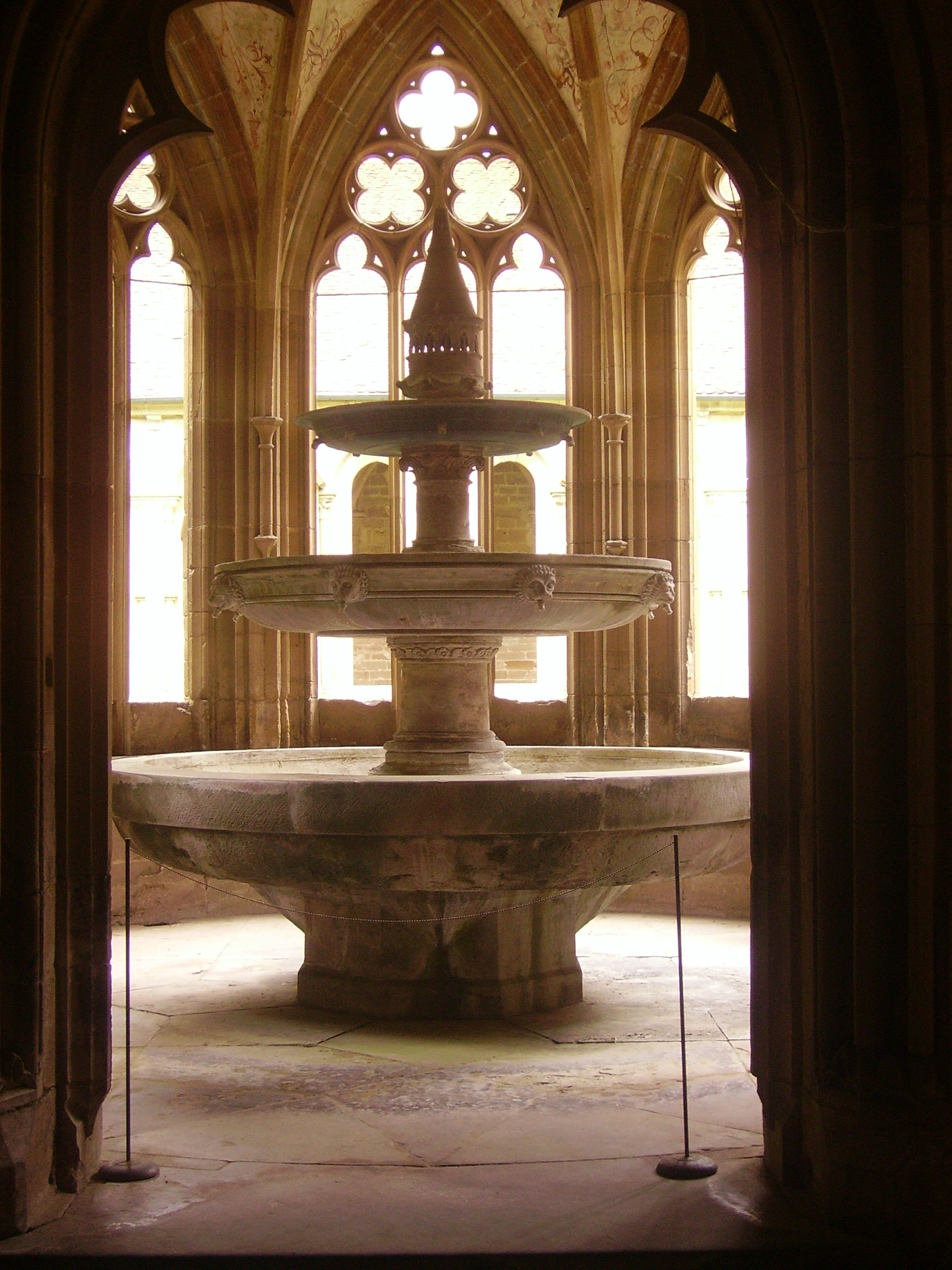 Fountain at the Lavatorium of Maulbronn Monastery, Maulbronn